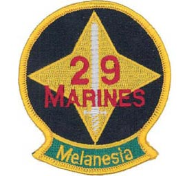 Patch of the 29th Marine Regiment of the United States Marine Corps.